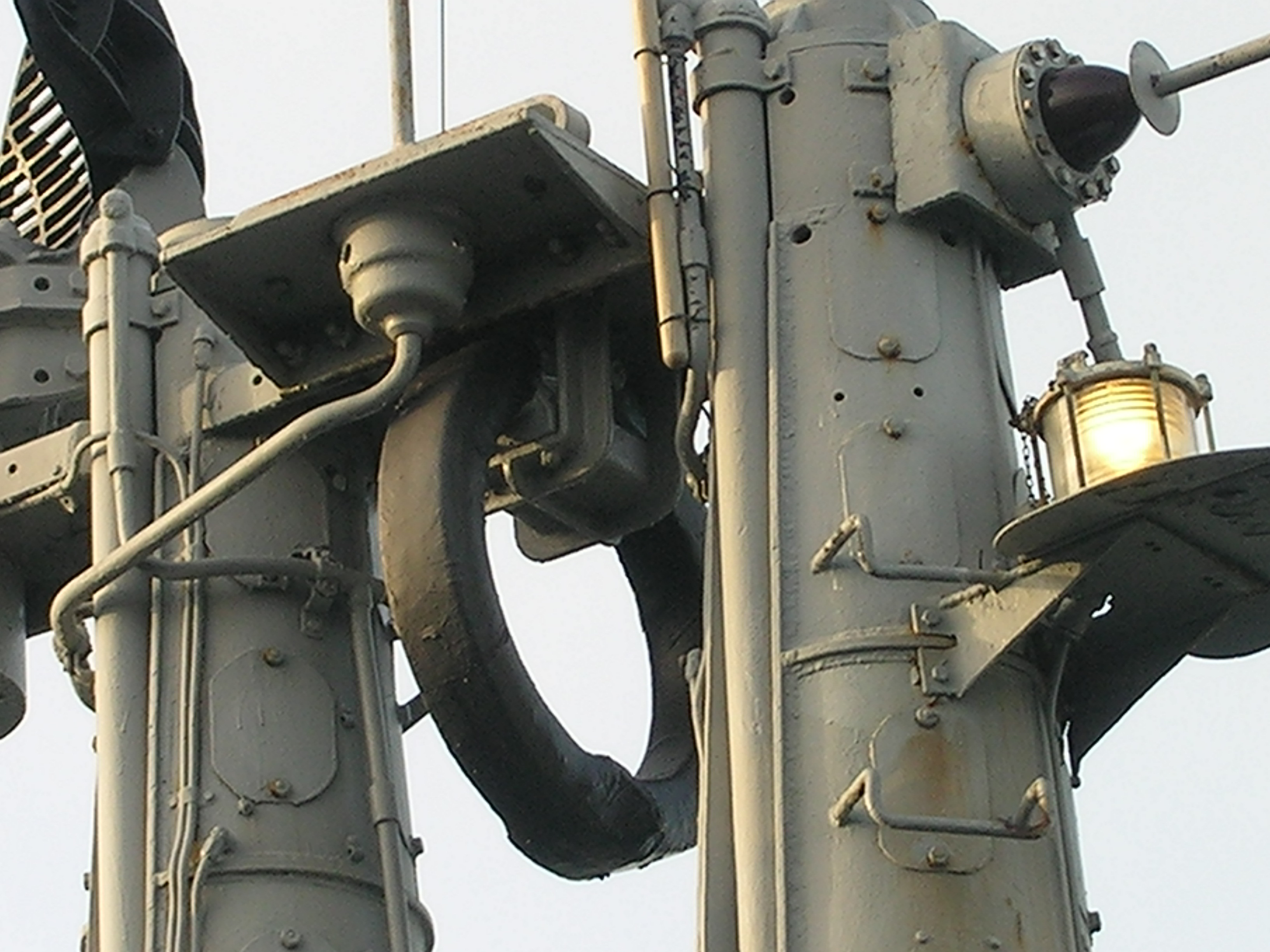 MF/LF loop antenna on submarine USS Pampanito (SS-383). The submarine was used during the second world war and is now a museum ship in in San Francisco port. The item was marked as antenna on the explaining table next to the ship.